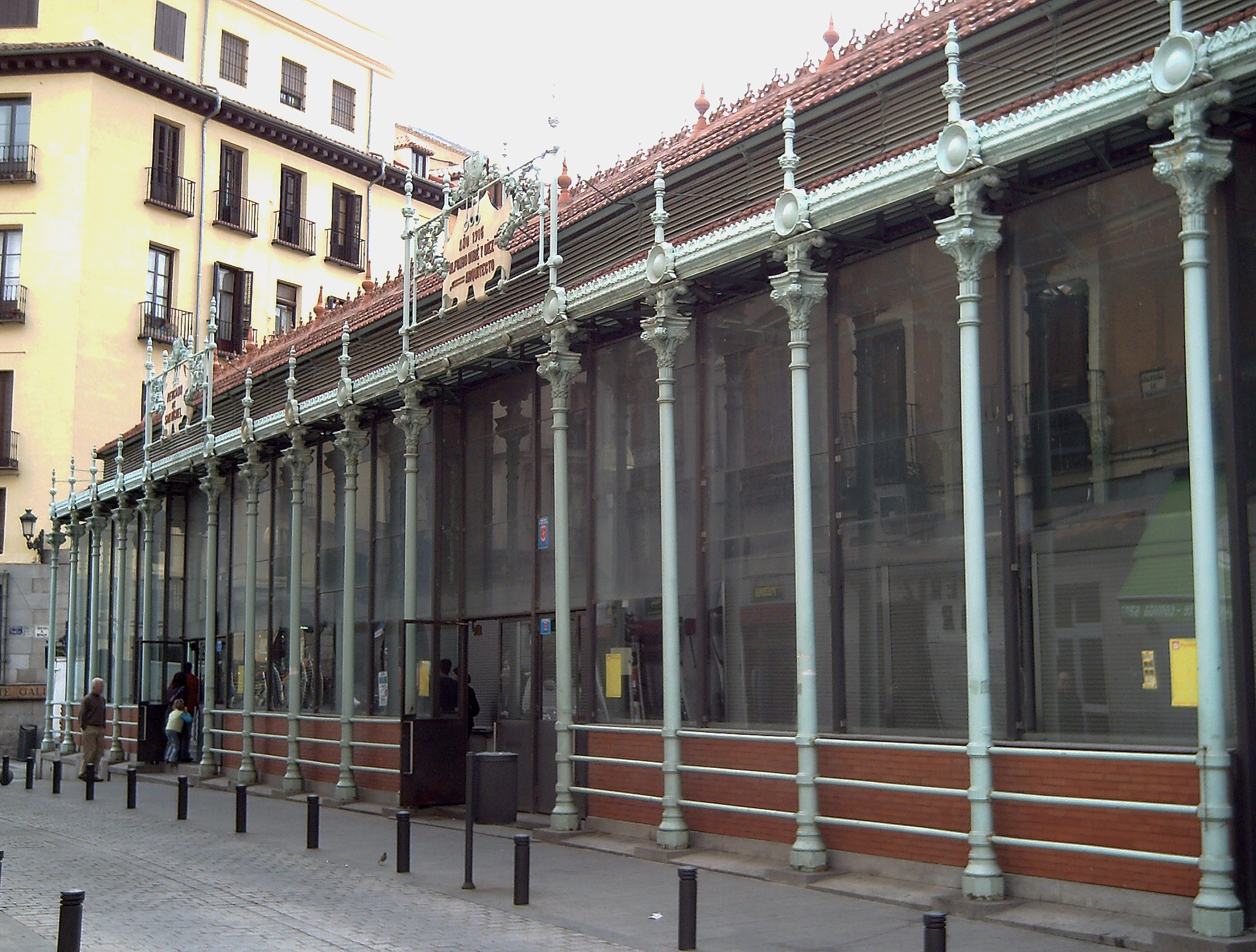 Mercado de San Miguel (a market) in Madrid (Spain). Projected by architect Alfonso Dubé y Díez and built from 1913 to 1916.